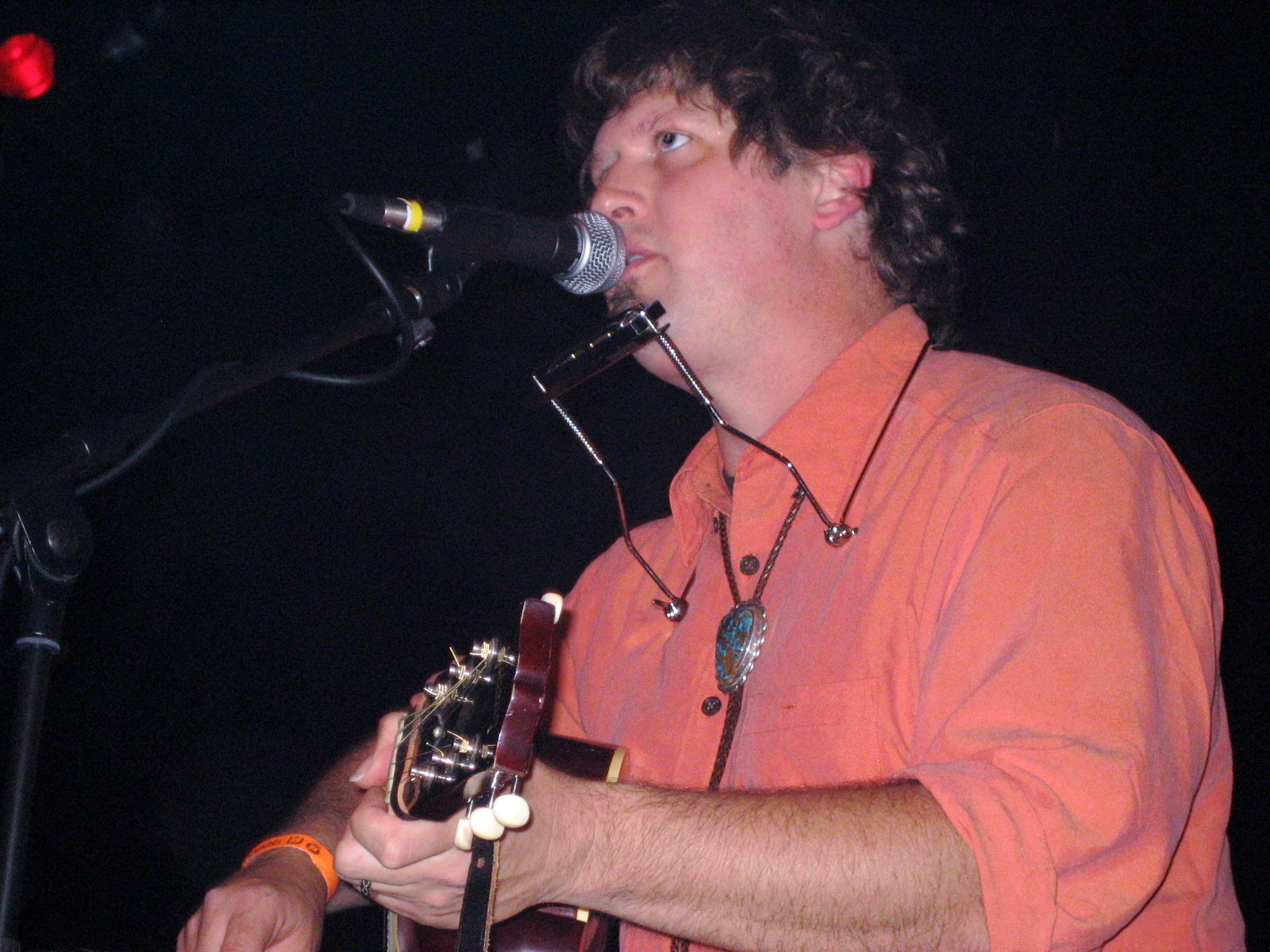 Boris McCutcheon @ Roots of Heaven in Patronaat in Haarlem, The Netherlands (14 may 2007)